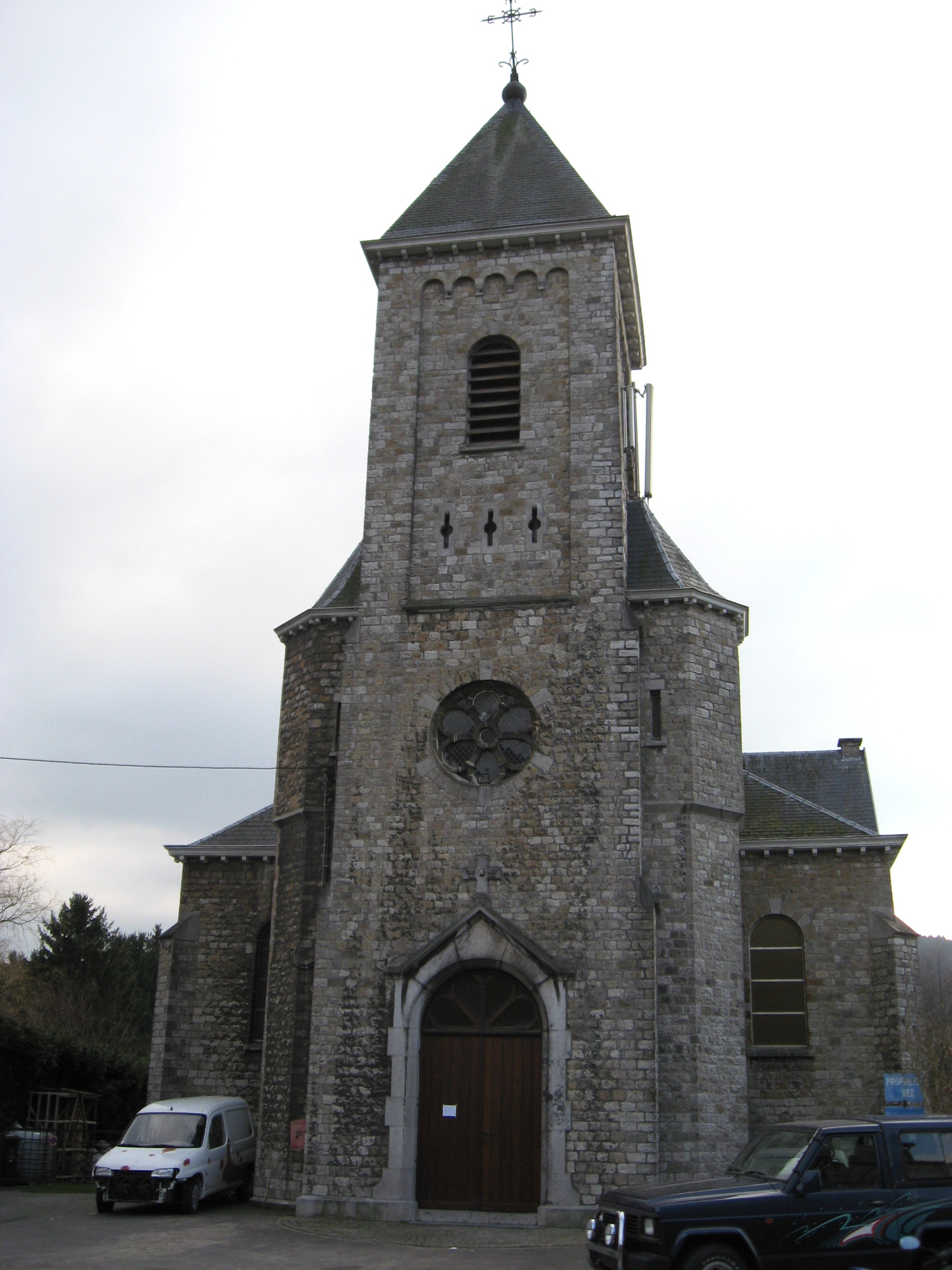 Church of Saint Monon in Goffontaine, Cornesse, Pepinster, Liège, Belgium